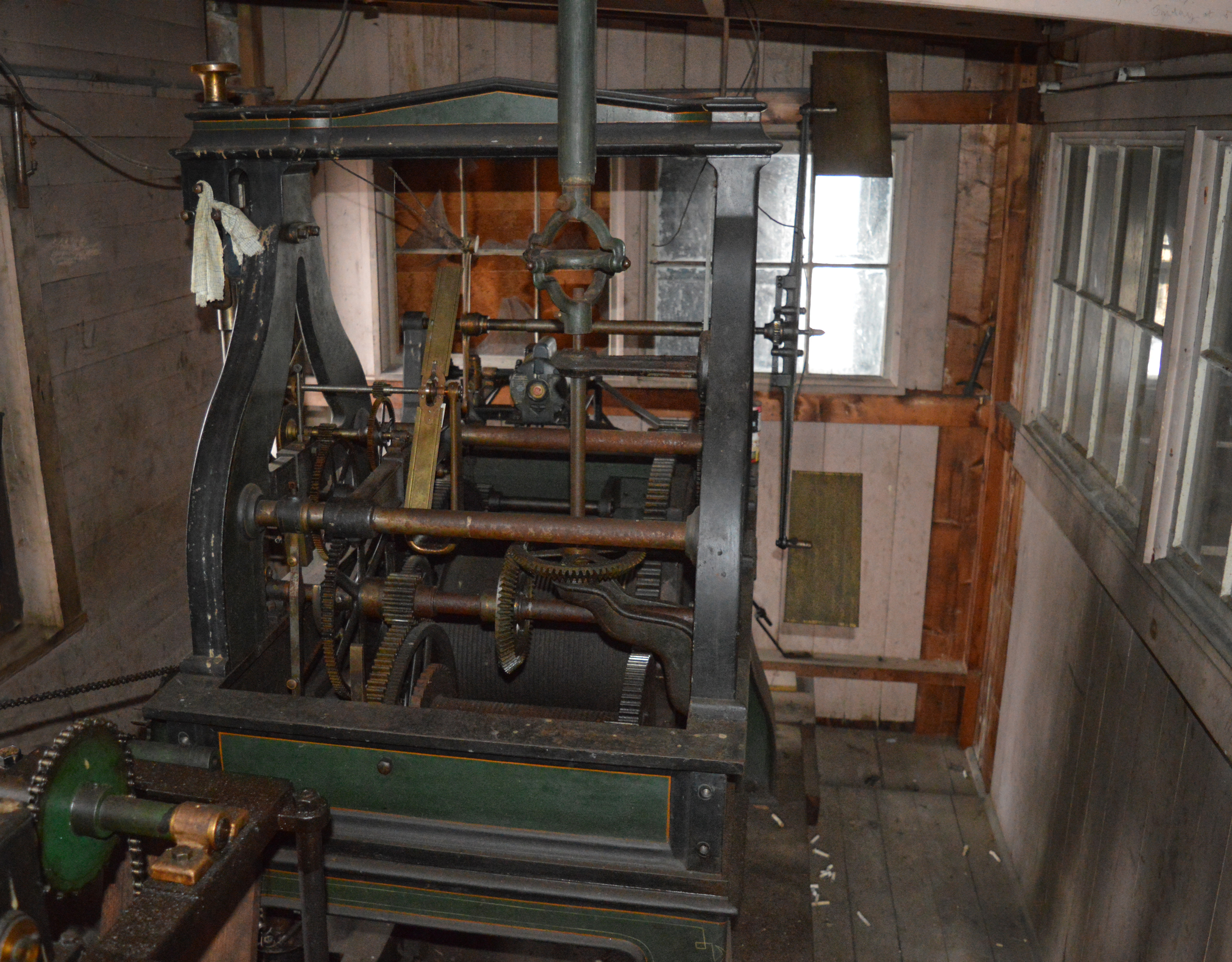 The Seth Thomas no. 14 mechanism of the Holyoke City Hall, prior to restoration in 2018.